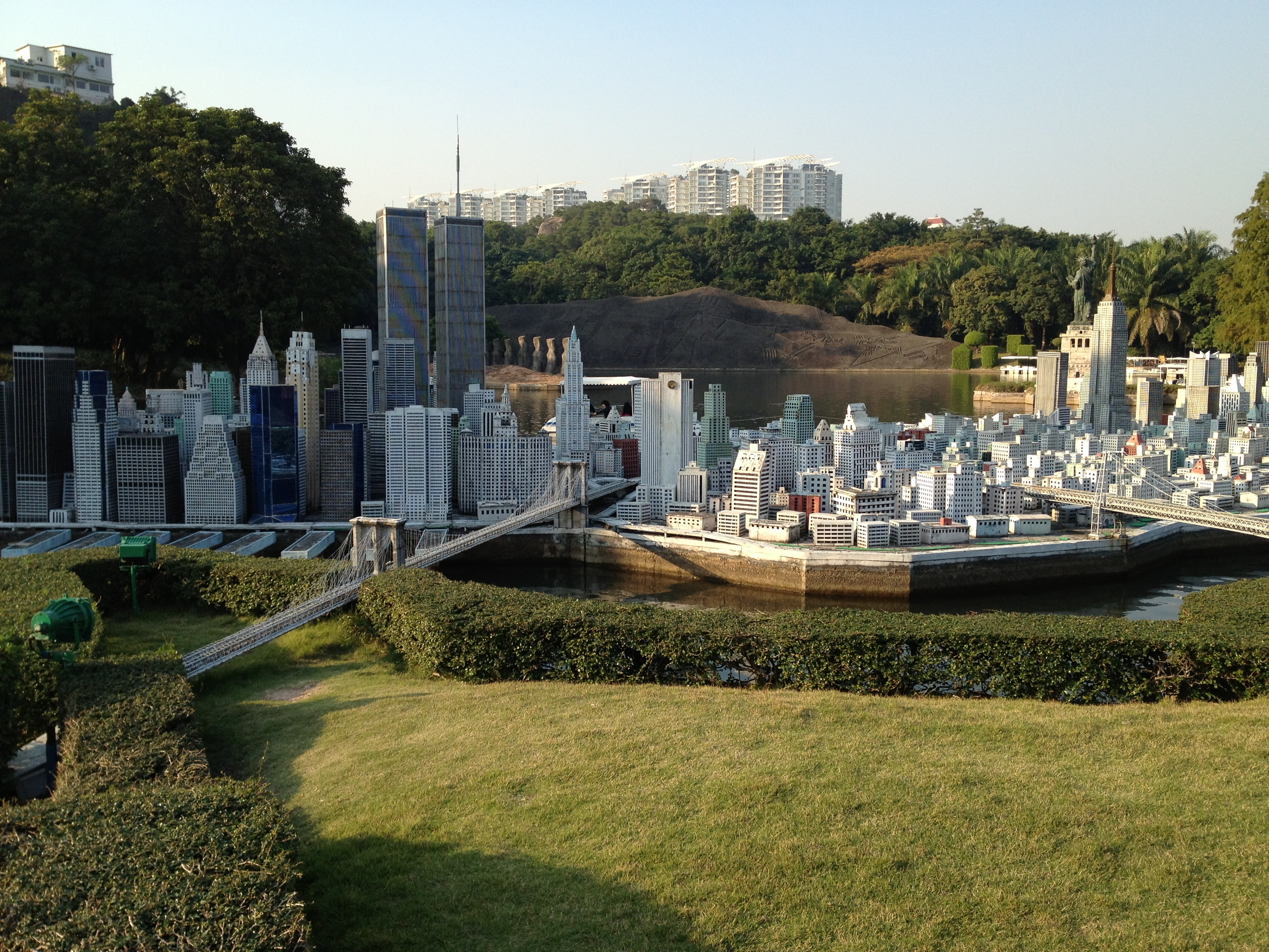 Scale model of the Skyscrapers of New York City at the Window of the World in Shenzhen-China